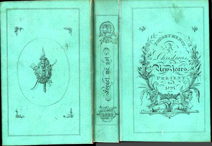 The Forget-Me-Not was an illustrated, British periodical published by Rudolph Ackermann. The annual was edited by Frederic Shoberl from its launch in 1822. A junior version appeared in 1828.